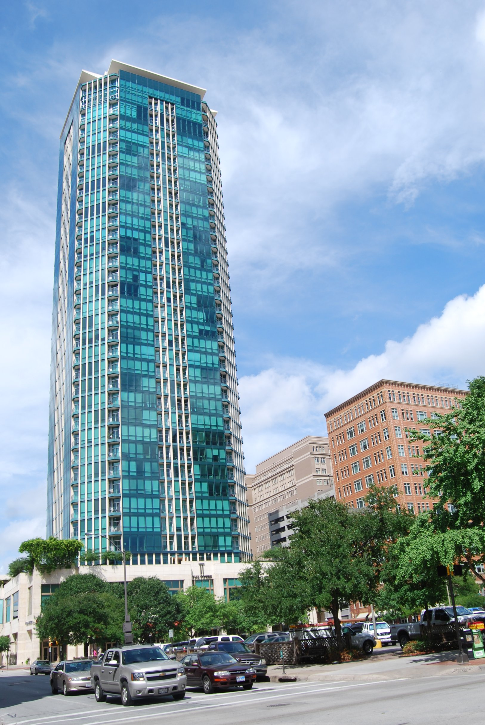 The Tower — at 500 Throckmorton, Fort Worth, Texas. This octagonal shaped structure was designed by John Portman in Atlanta, for the Fort Worth National Bank. When constructed, the tower featured a magnificent interior bank lobby in a five story atrium that surrounded the building's core. It was 454 feet tall and 37 stories with a sloping base, making it the city's 5th tallest building when it opened in 1974. It was heavily damaged in the March 28, 2000 tornado. The building was closed to the public on February 26, 2001, and after that time, interior demolition and asbestos removal was in progress. When costs became prohibitive, demolition was halted. For over one year, the skyscraper was clad in either plywood or metal panels. Fort Worth Architecture